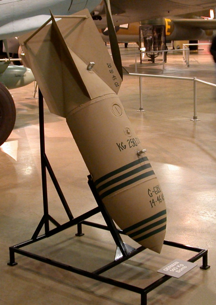 German WW2 "SC250" 250kg bomb on display at the National Museum of the United States Air Force. (Note bomb is signed by the museum as 140kg, but this is an error the museum has since corrected.)